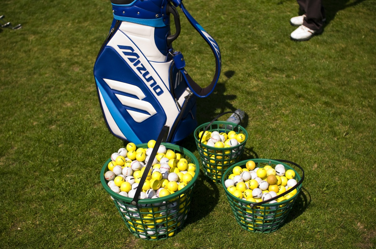 Baskets of golf balls